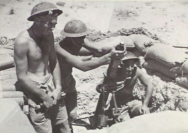 A mortar team from the Australian 2/43rd Infantry Battalion during the fighting around El Alamein, July 1942.